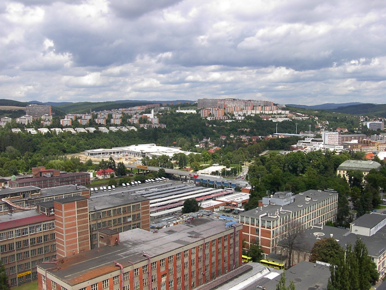 Urban settlement Jižní Svahy, Zlín.